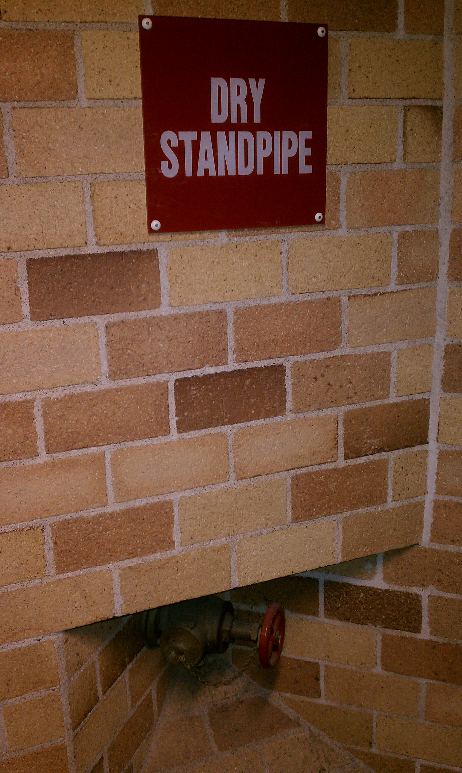 A dry standpipe in a University of St. Thomas building